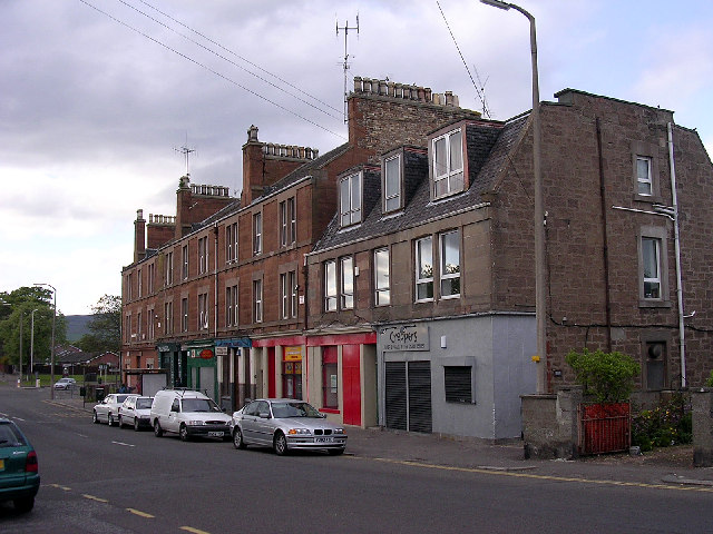 Downfield, Dundee. The Victorian tenements of Downfield are testimony to the fact that it was once an independent settlement rather than a part of Dundee's suburbs.